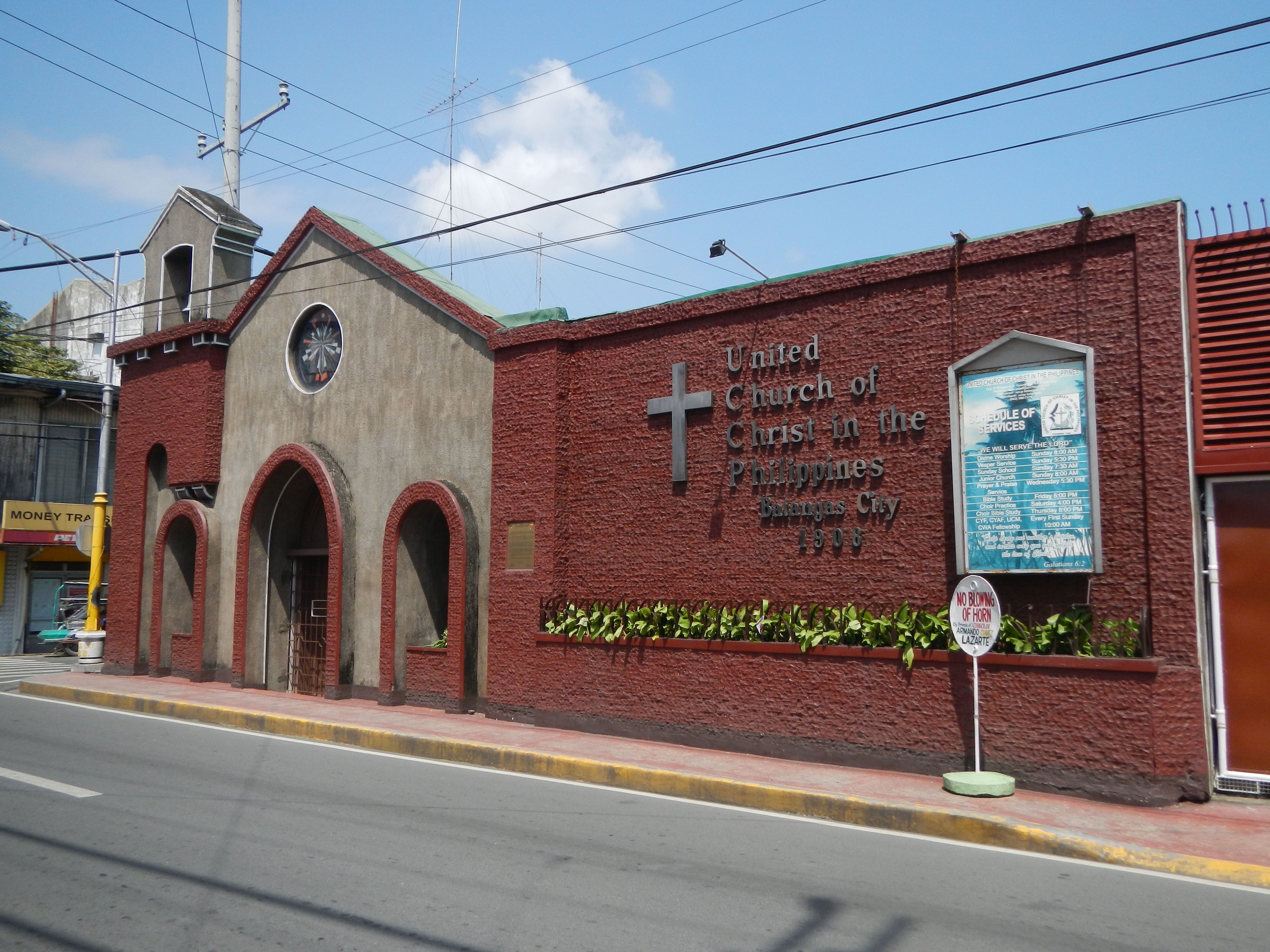 Upload Wizard -- (general description of landmarkds, town, church) - of - Tom's Supermarket, P. Burgos st. cor. D. Silang St., Welcome Arch of Barangay 10, Jollibee, PNB, BPI, 1908 United Church of Christ in the Philippines[1]- [2] (United Church of Christ in the Philippines (a Christian denomination in the Philippines stablished in Malate, Manila, it resulted from the merger of the Evangelical Church of the Philippines, the Philippine Methodist Church, the Disciples of Christ, the United Evangelical Church and several independent congregations), City Proper, downtown, Centro and Batangas State University[3] [4] - Batangas [5].